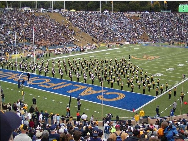 Cal Band's Initial Wedge formation during the 2004 season.